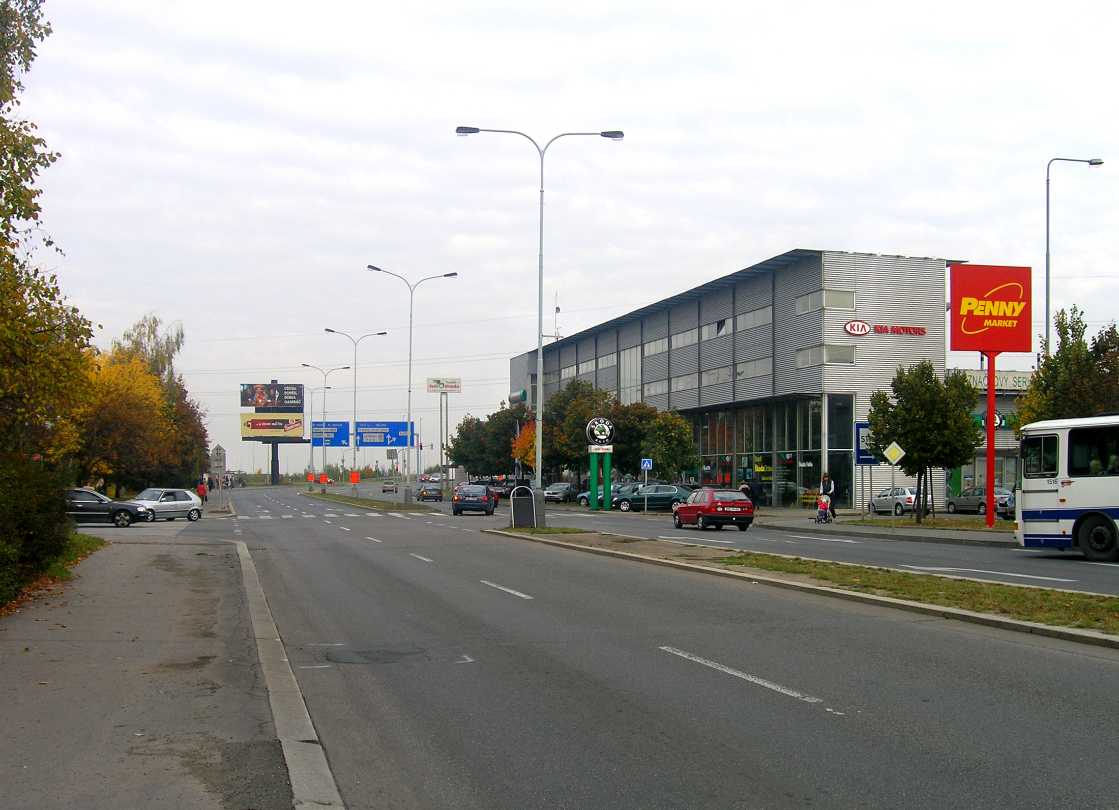 Prosecká street in Prosek, Prague